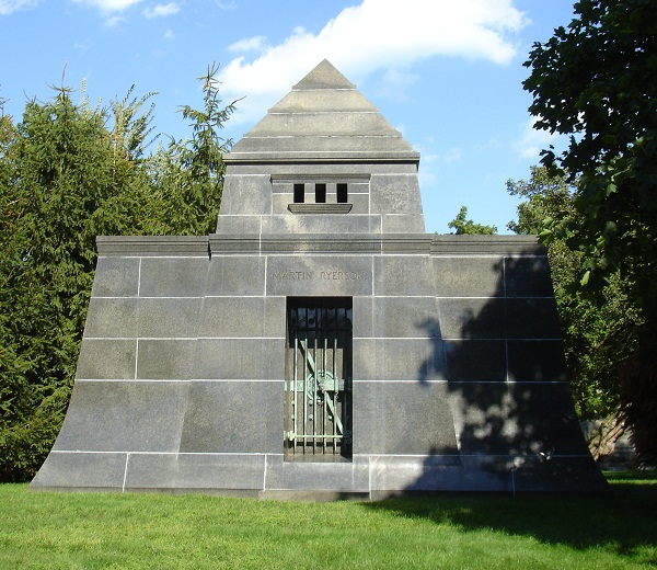 The Louis Sullivan designed Martin Ryerson Tomb (1889). This Egyptian Revival style mausoleum is located in Chicago's Graceland Cemetery.